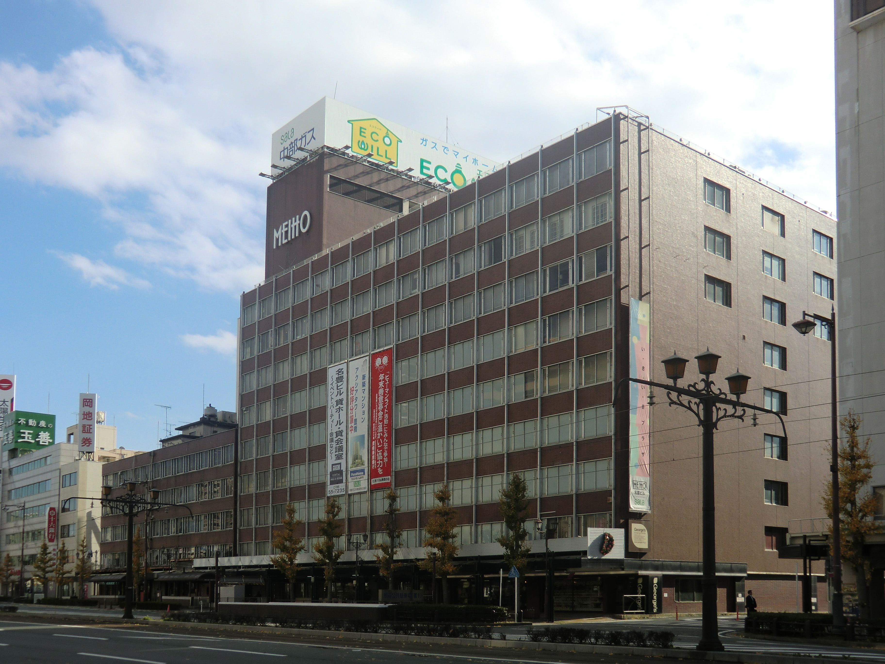 Meiho Building, at Ekimae-ōdōri, Toyohashi, Aichi, Japan.